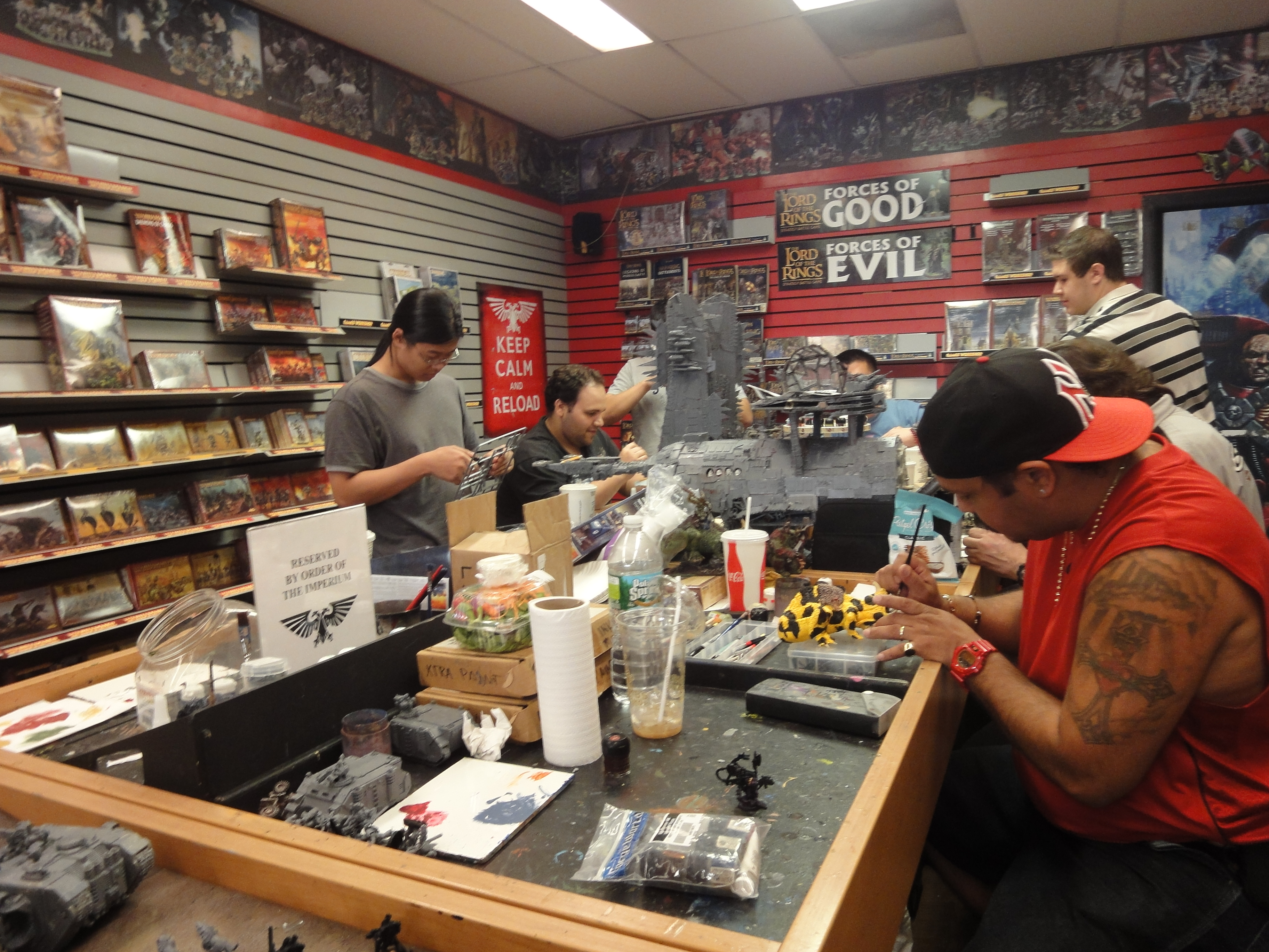 Games Workshop New Yorck NY staff